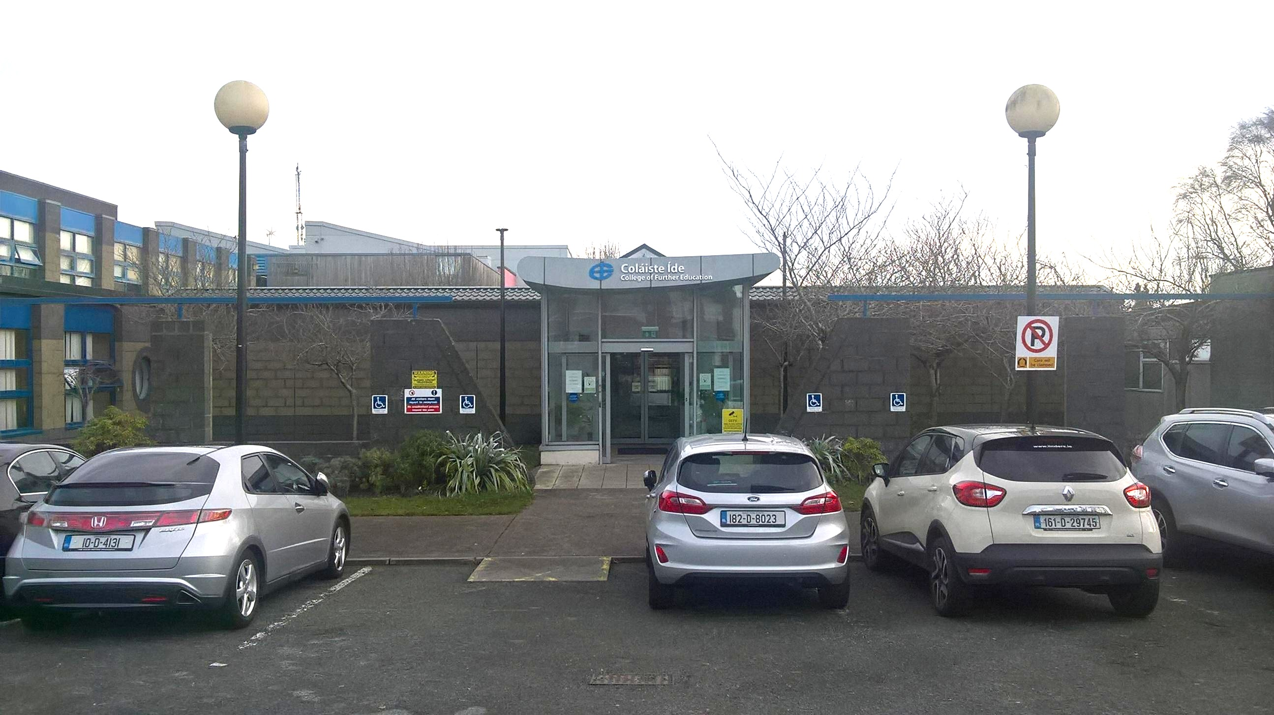 Main entrance to Coláiste Íde College of Further Education.